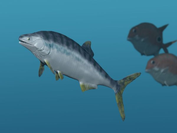 Hypsocormus